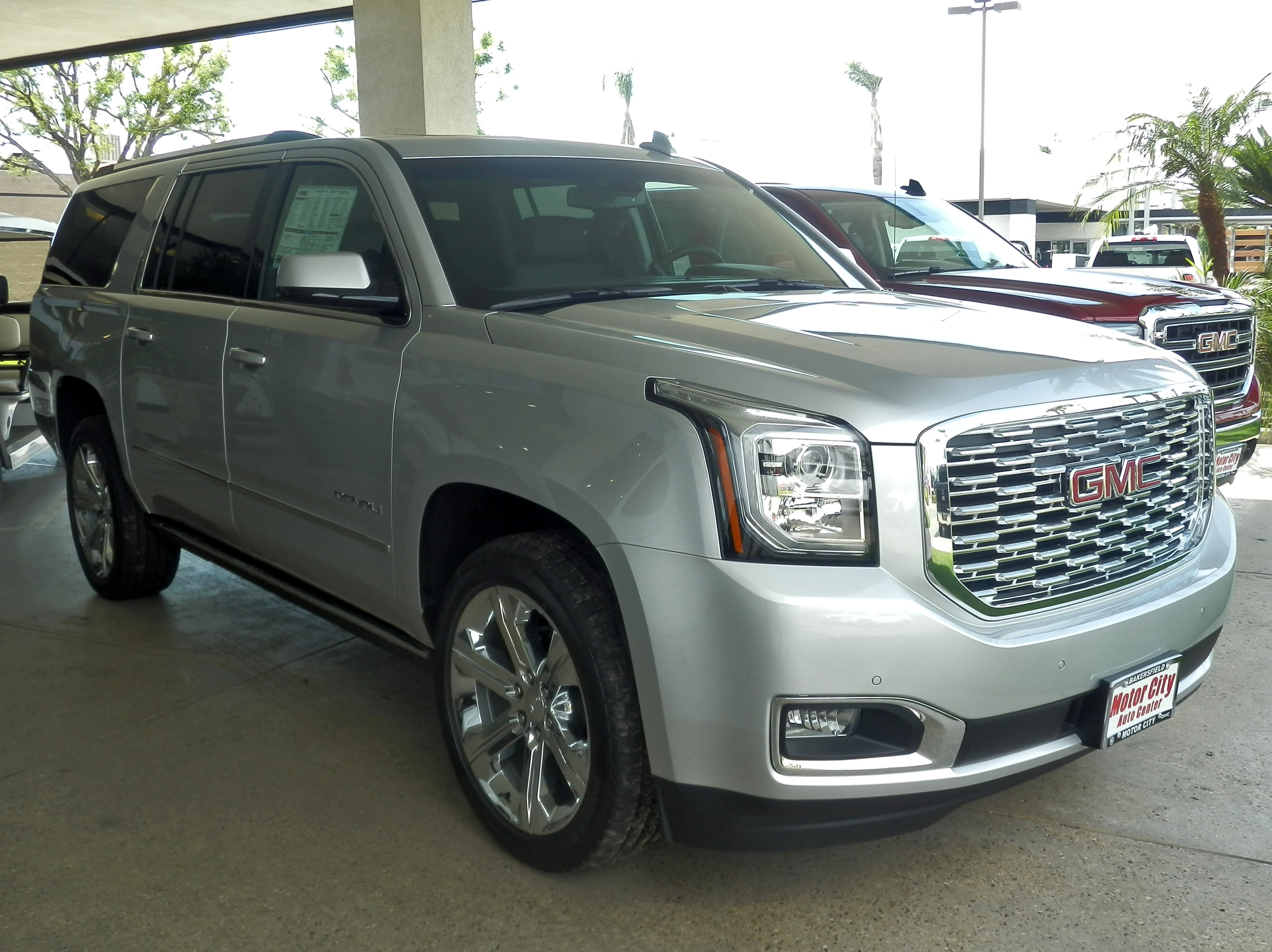 GMC Yukon XL in Bakersfield